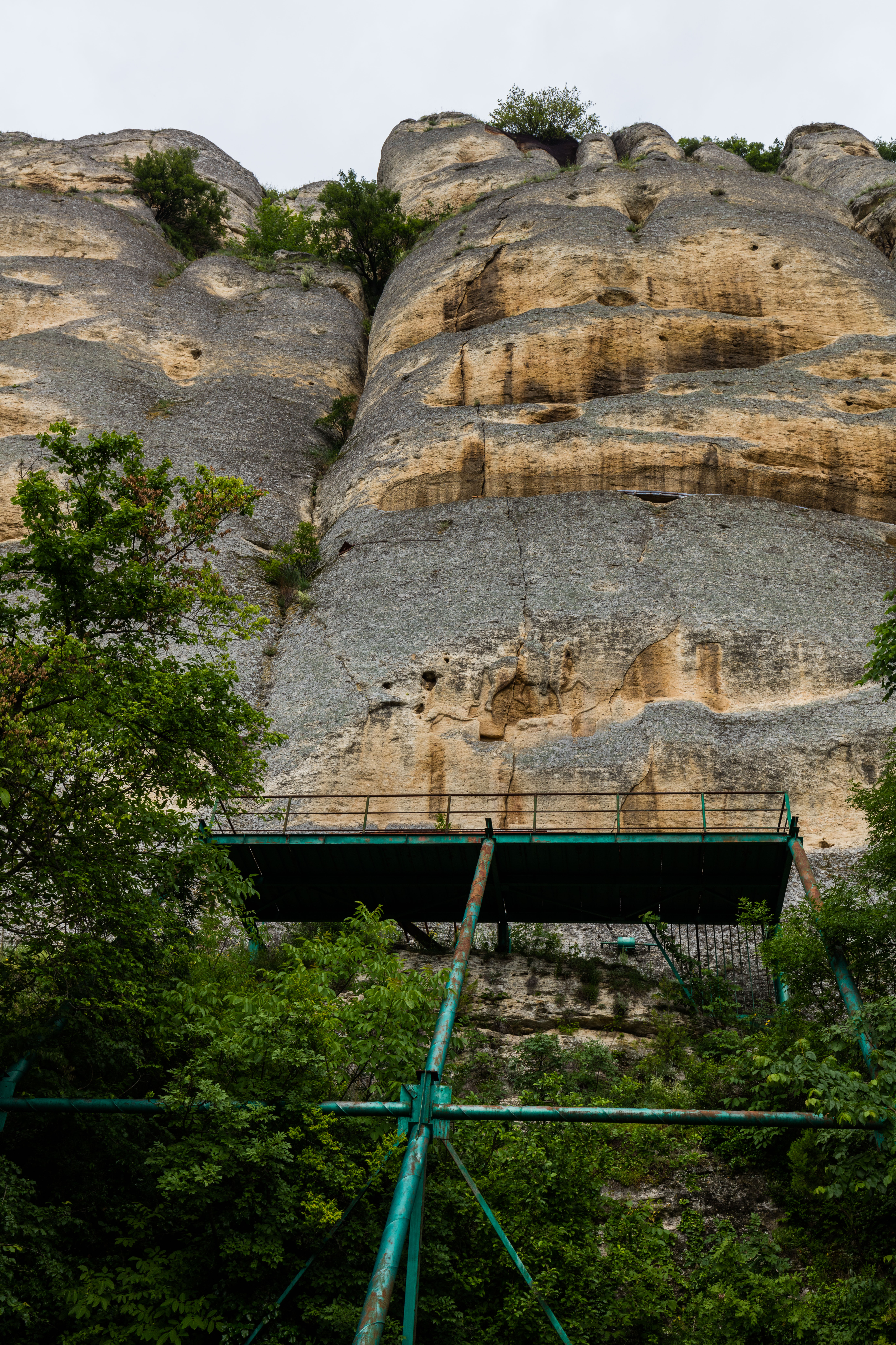 Madara Rider, National historical archaeological reserve, Bulgaria